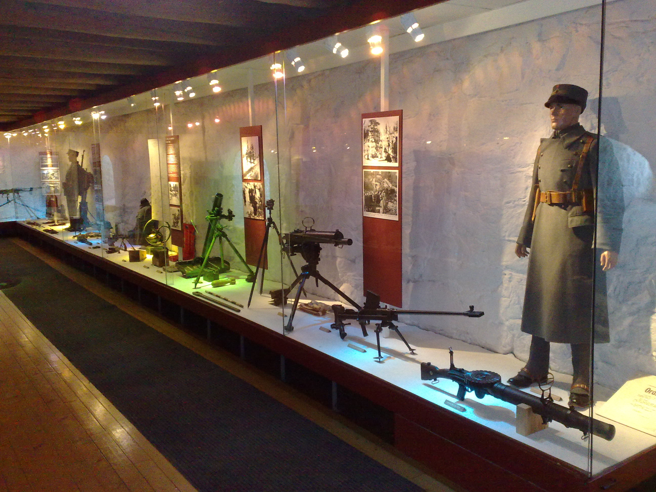 2.floor museum